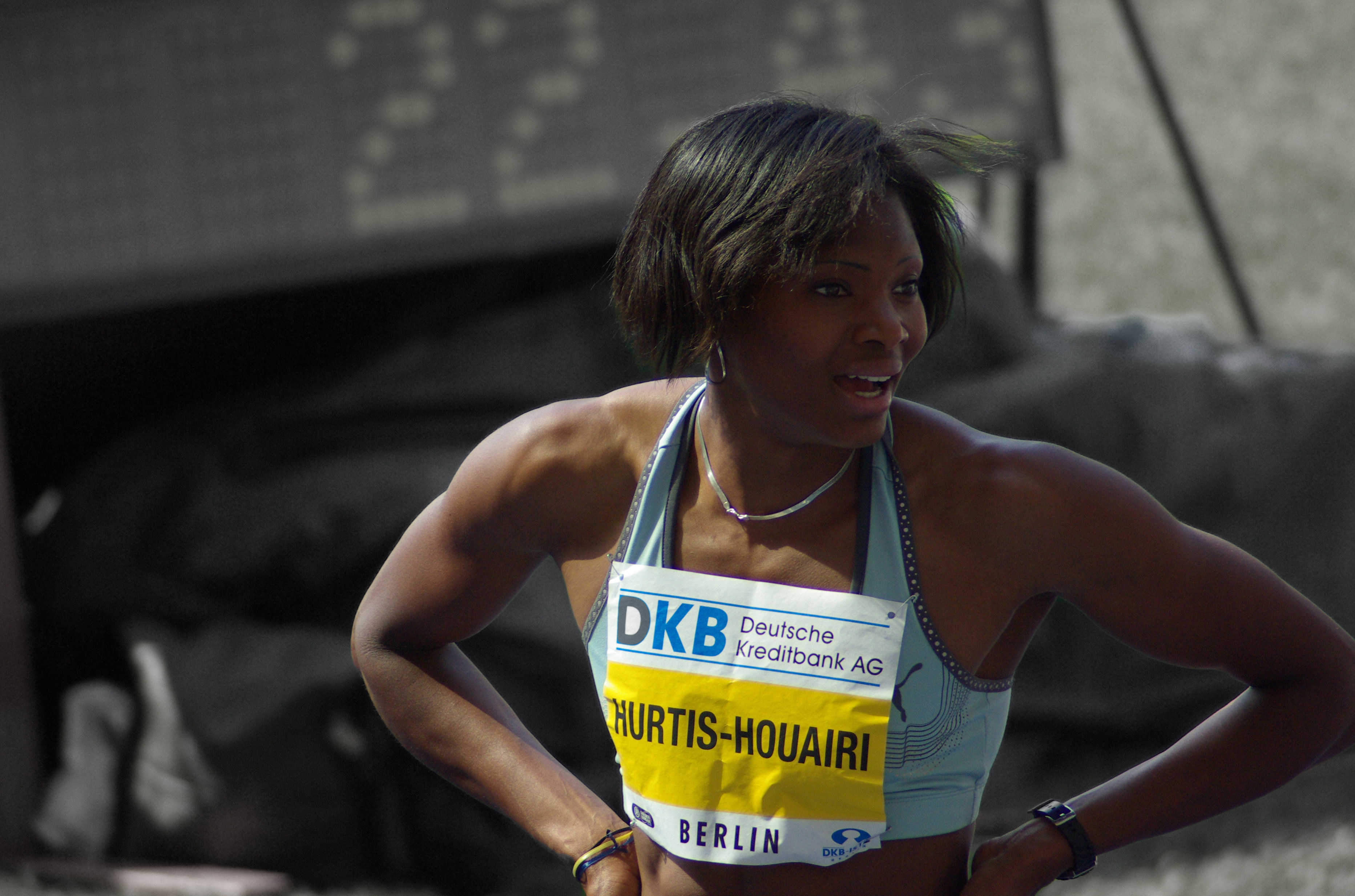 Muriel Hurtis-Houairi Meeting ISTAF Berlin 2008